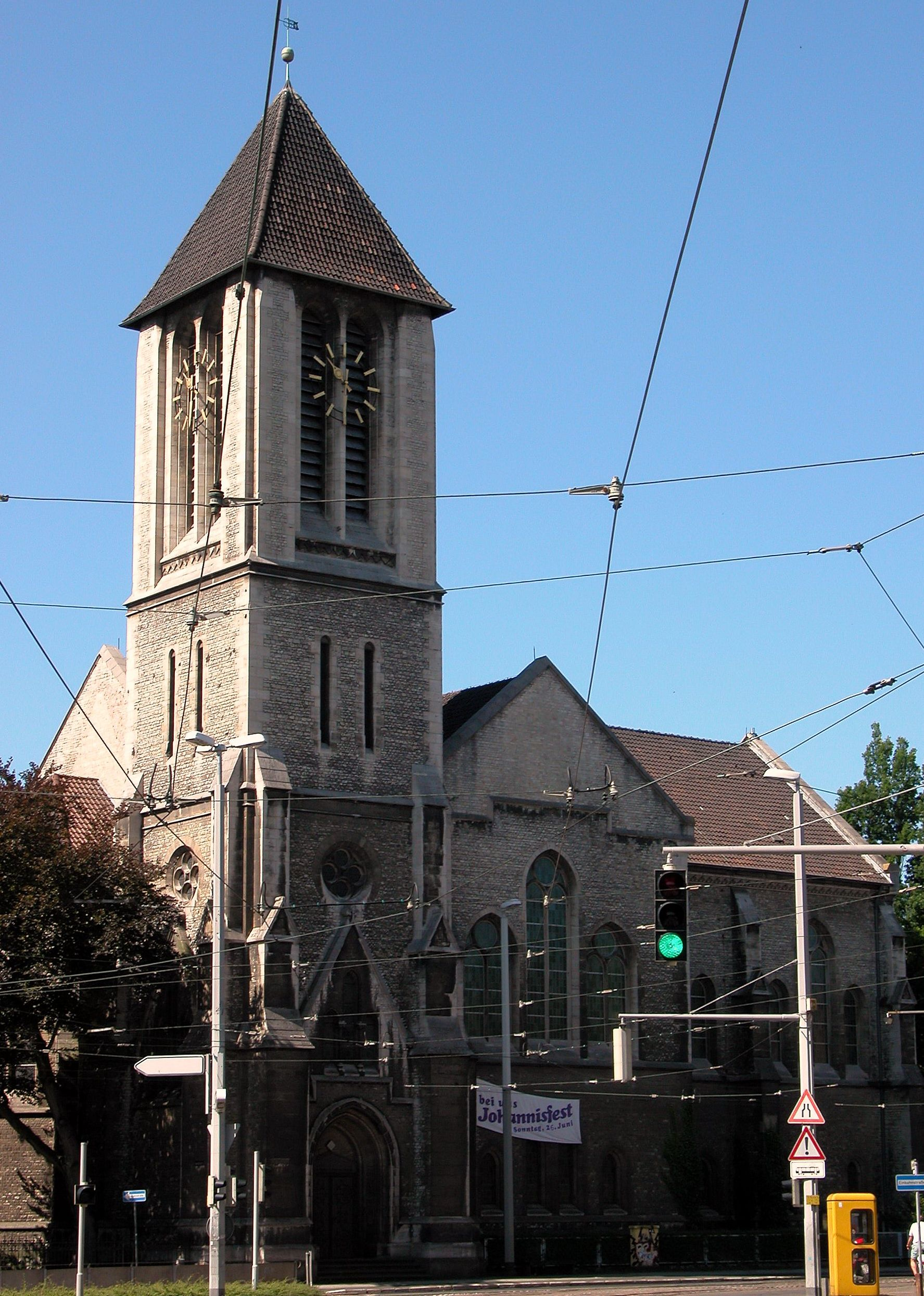 Braunschweig, Germany: St. John’s Church in 2005.